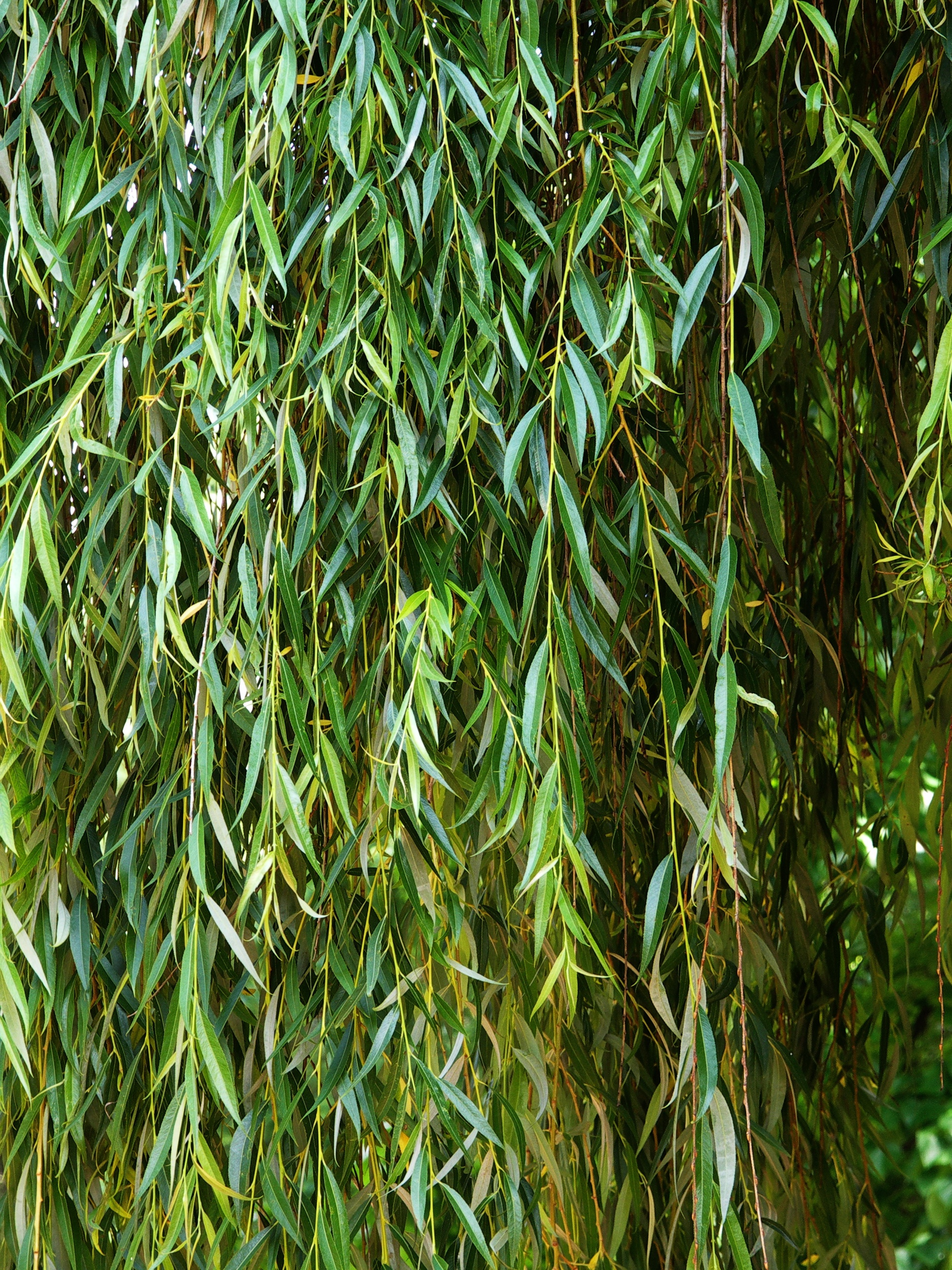 Leaves of a Weeping Willow (Salix × sepulcralis)